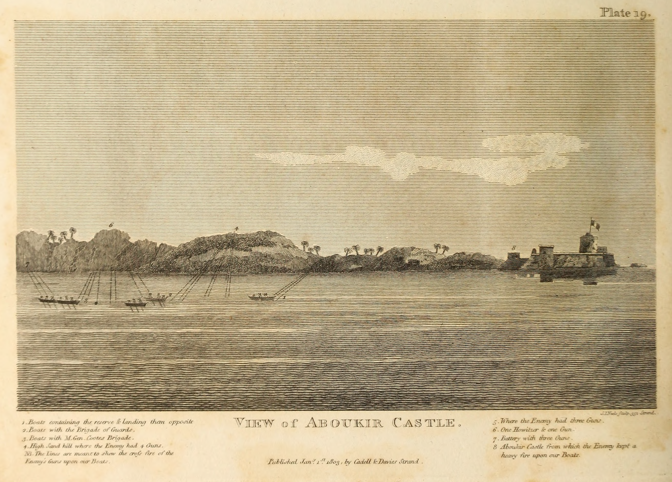 View of the Aboukir Castle